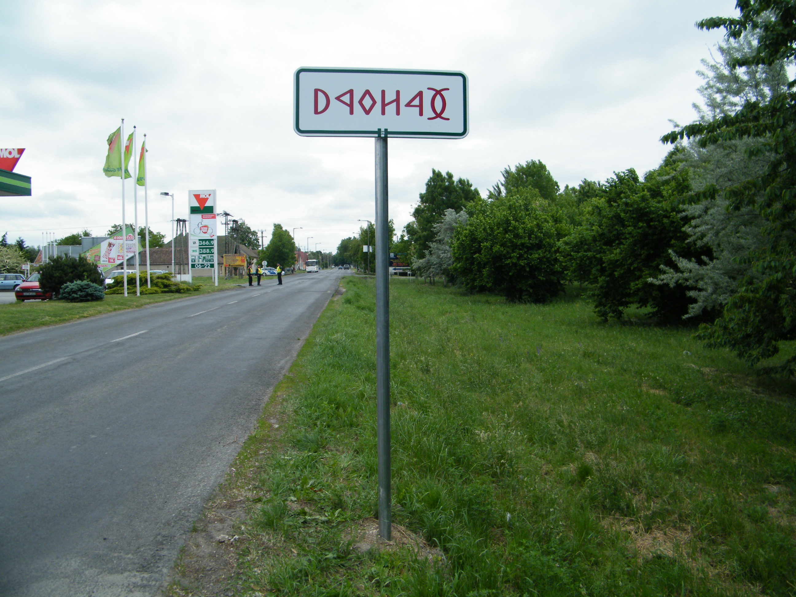 City limit table in Harkány, Hungary. Traditional Hungarian letters (rovas)